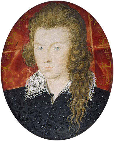 Portrait of Henry Wriothesley, 3rd Earl of Southampton (1573-1624) Miniature painting, sometimes thought to have been the dedicatee of Shakespeare's sonnets (1573-1624).